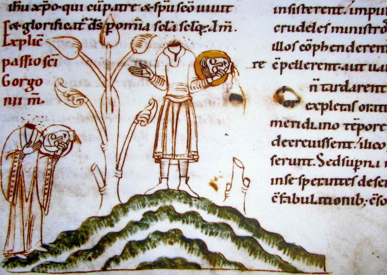 Zürich, Wasserkirche : Felix and Regula, in 'Stuttgarter Passionale' (1130 a.D.), Württembergische Landesbibliothek, Stuttgart